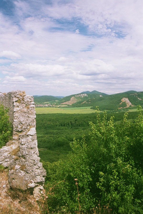 Mt. Záruby, view from Plavecký hrad, Malé Karpaty, Western Slovakia